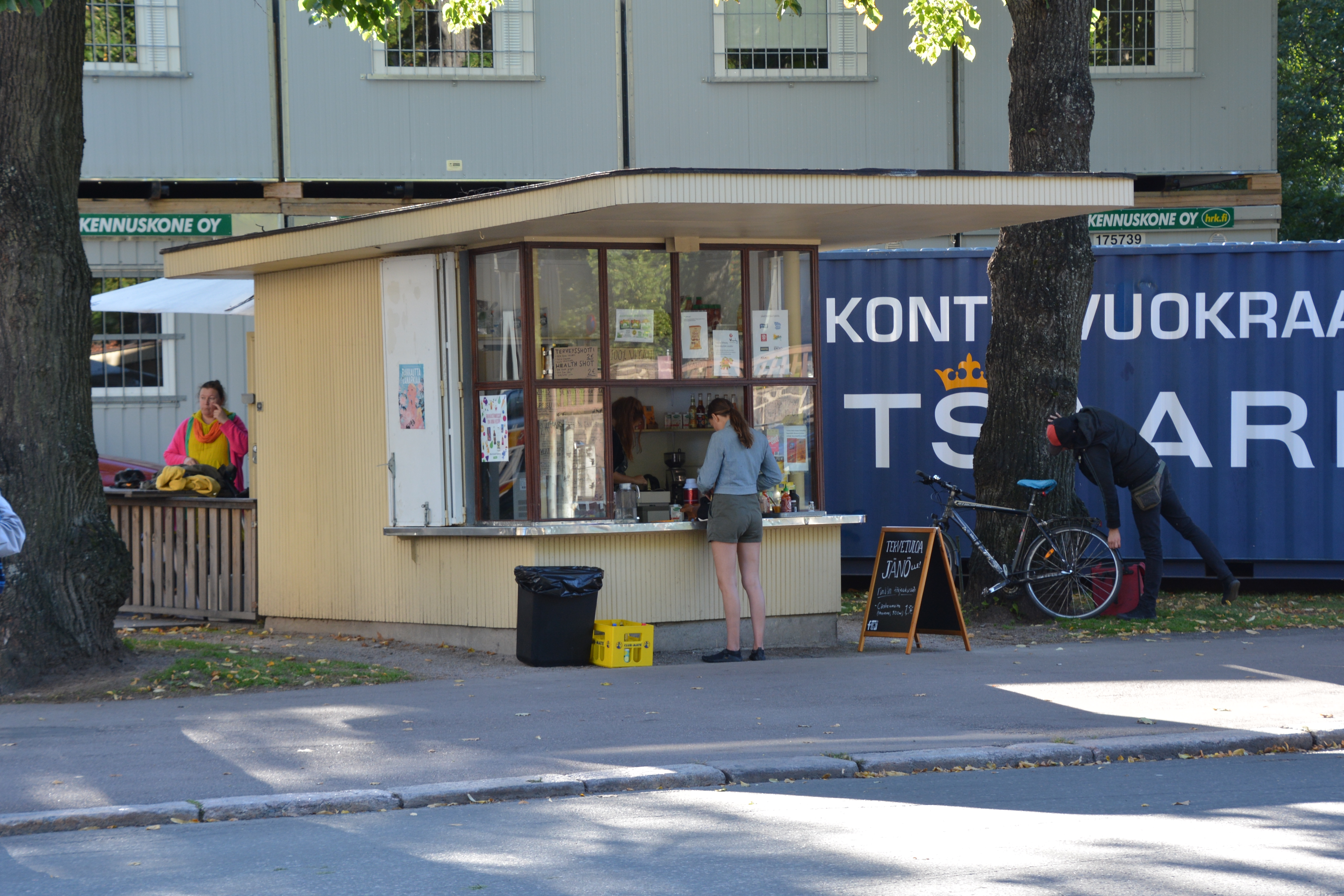 Jaskan Grill in Helsinki, Finland